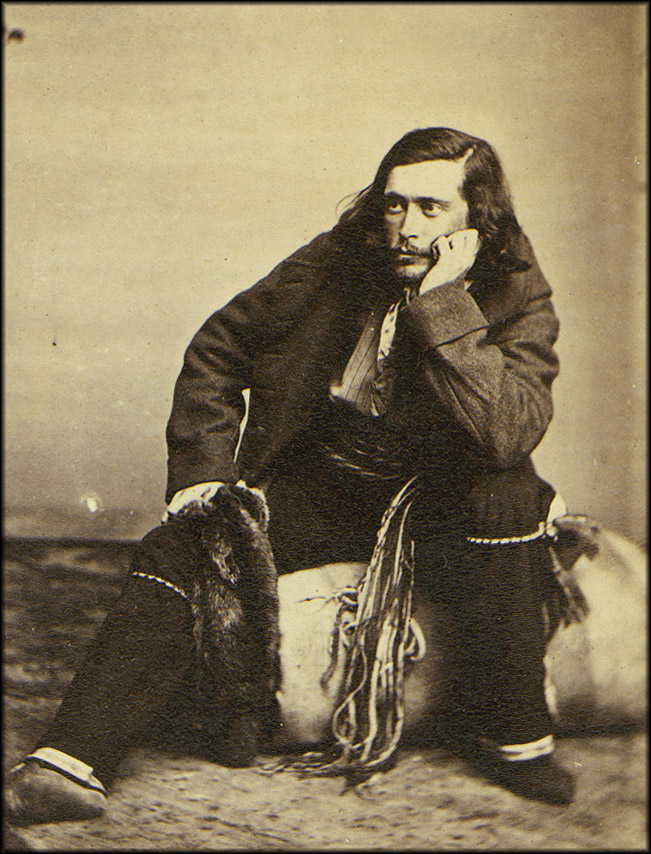 Photo of Robert Kennicott of the Collins Overland telegraph